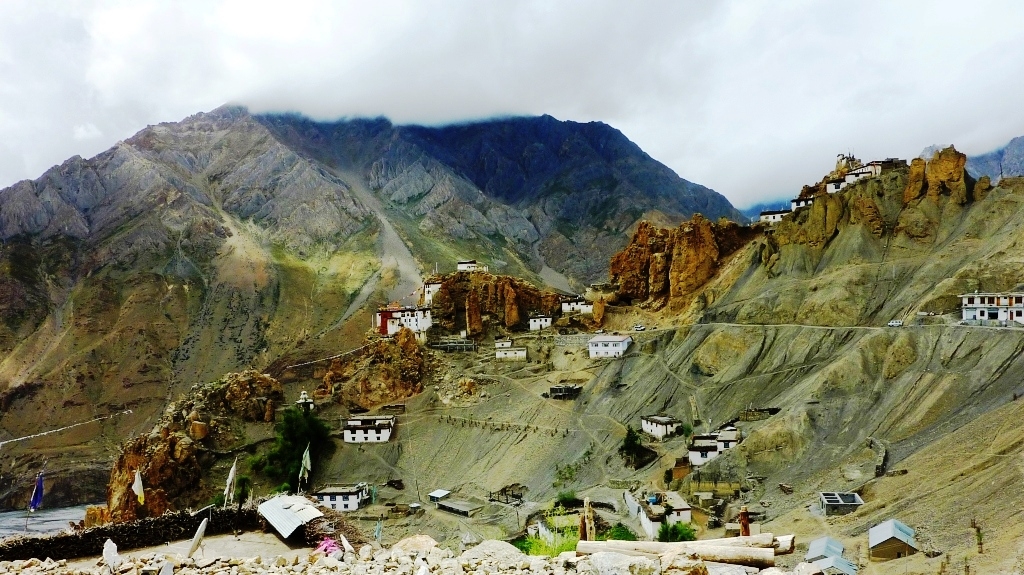 This photo was taken on a trip through the Spiti Valley in 2010